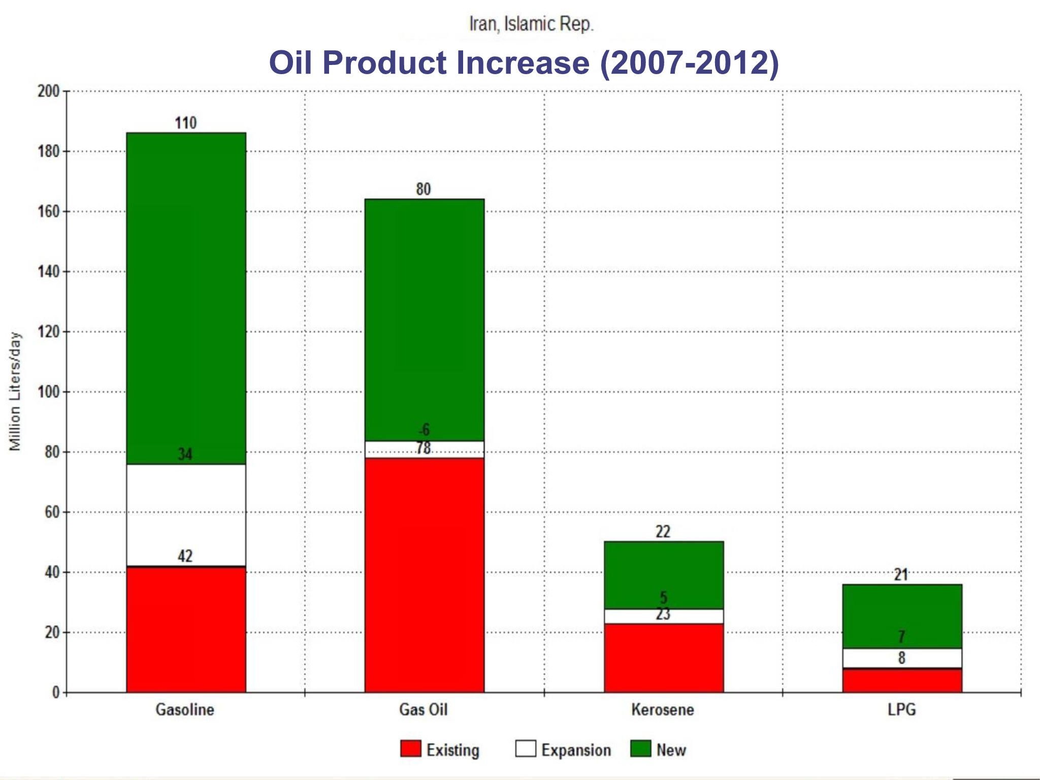 Iran: Oil product increase (2007-2012) through expansion of existing facilities or construction of new refineries. Data source: National Iranian Oil Refining & Distribution Company.